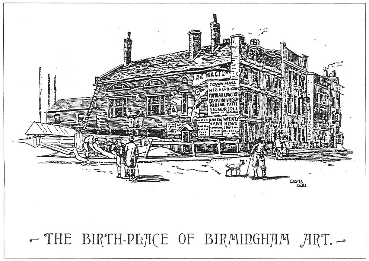 "The Birth-place of Birmingham Art" - Joseph Barber's studio in Edmund Street, Birmingham. Drawn by Warren Blackham and published in The Art Student, July 1886